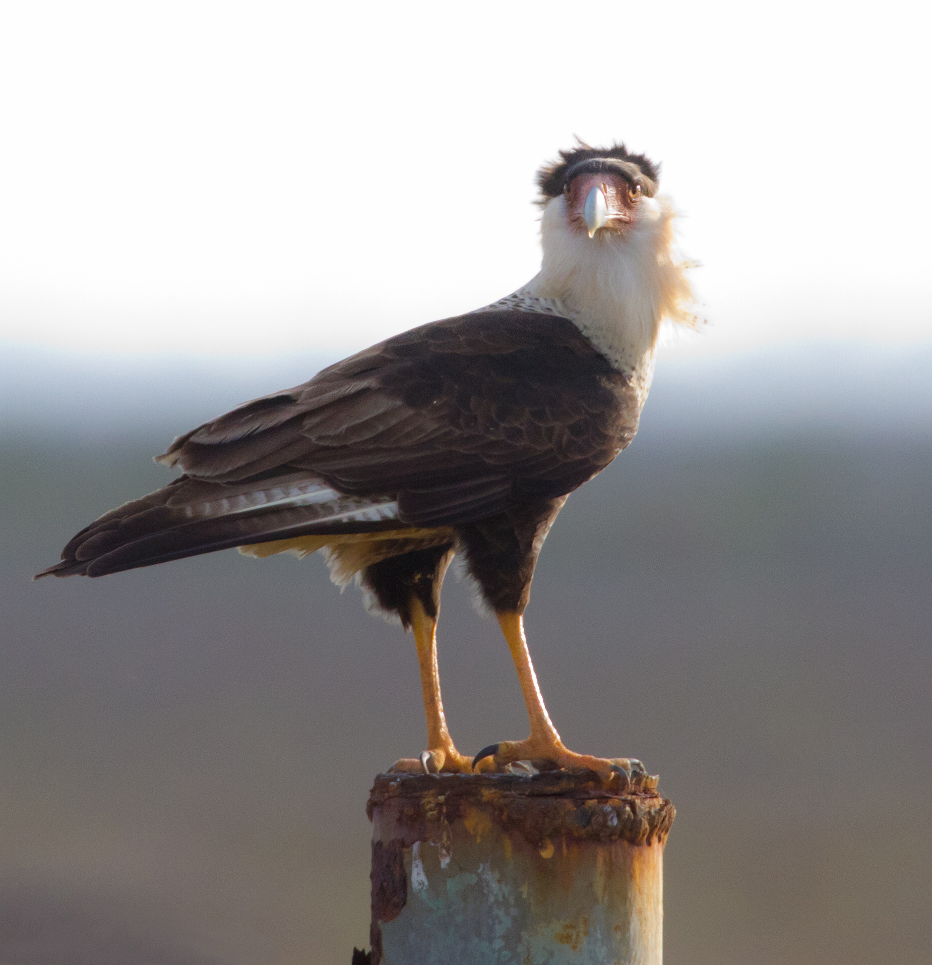 Caracara cheriway, Brazoria National Wildlife Refuge, Texas